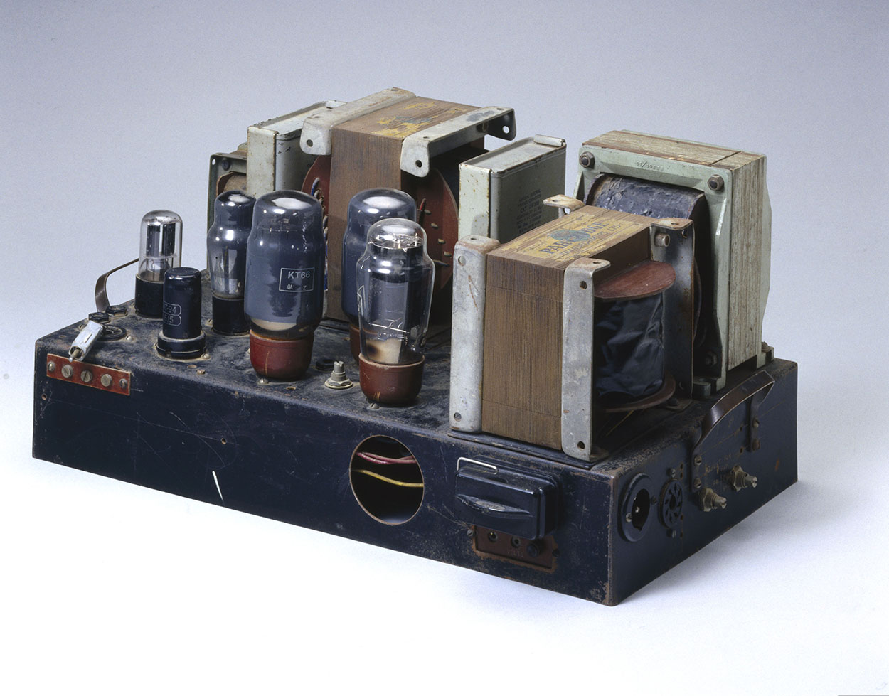 A DIY tube amplifier from the collection of Science Museum (London).The original description said it's a Williamson amplifier, but the front end tube complement is different from a typical Williamson.